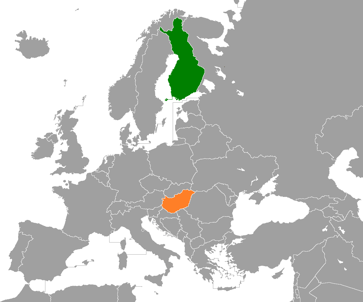 Finland-Hungary locator map.